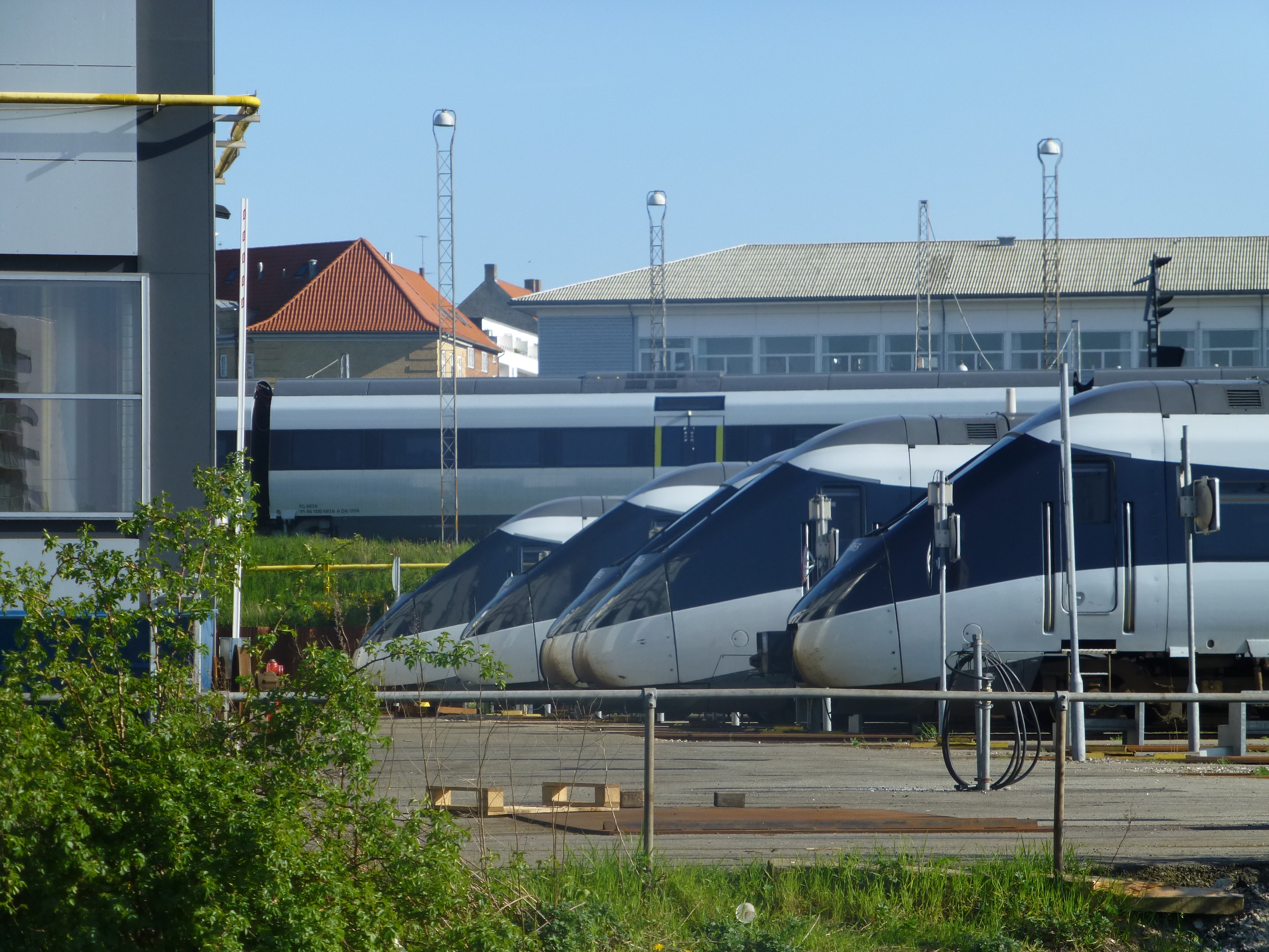 Several diesel multiple units IC4 at the workshop at Sonnesgade in Aarhus in Denmark.